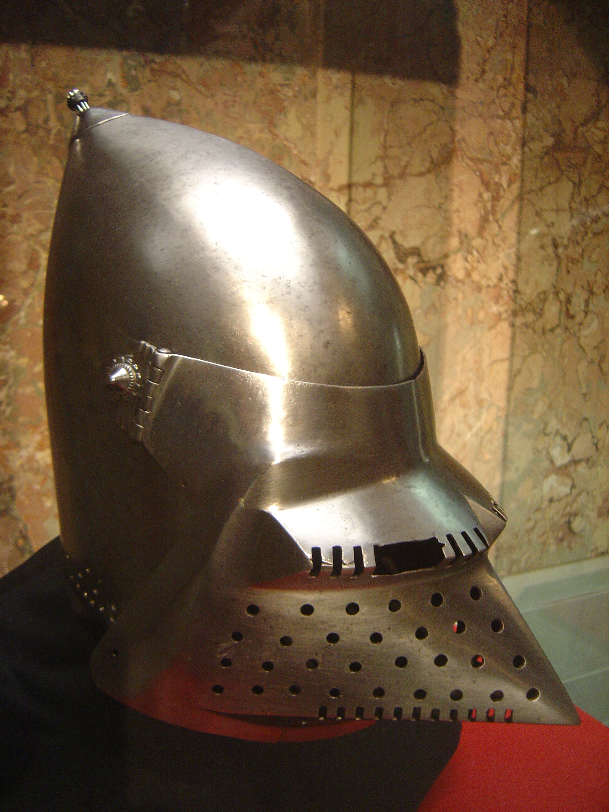 Helmet (Milan 1400-1410) See also Image:Helm DSC02153.JPG.